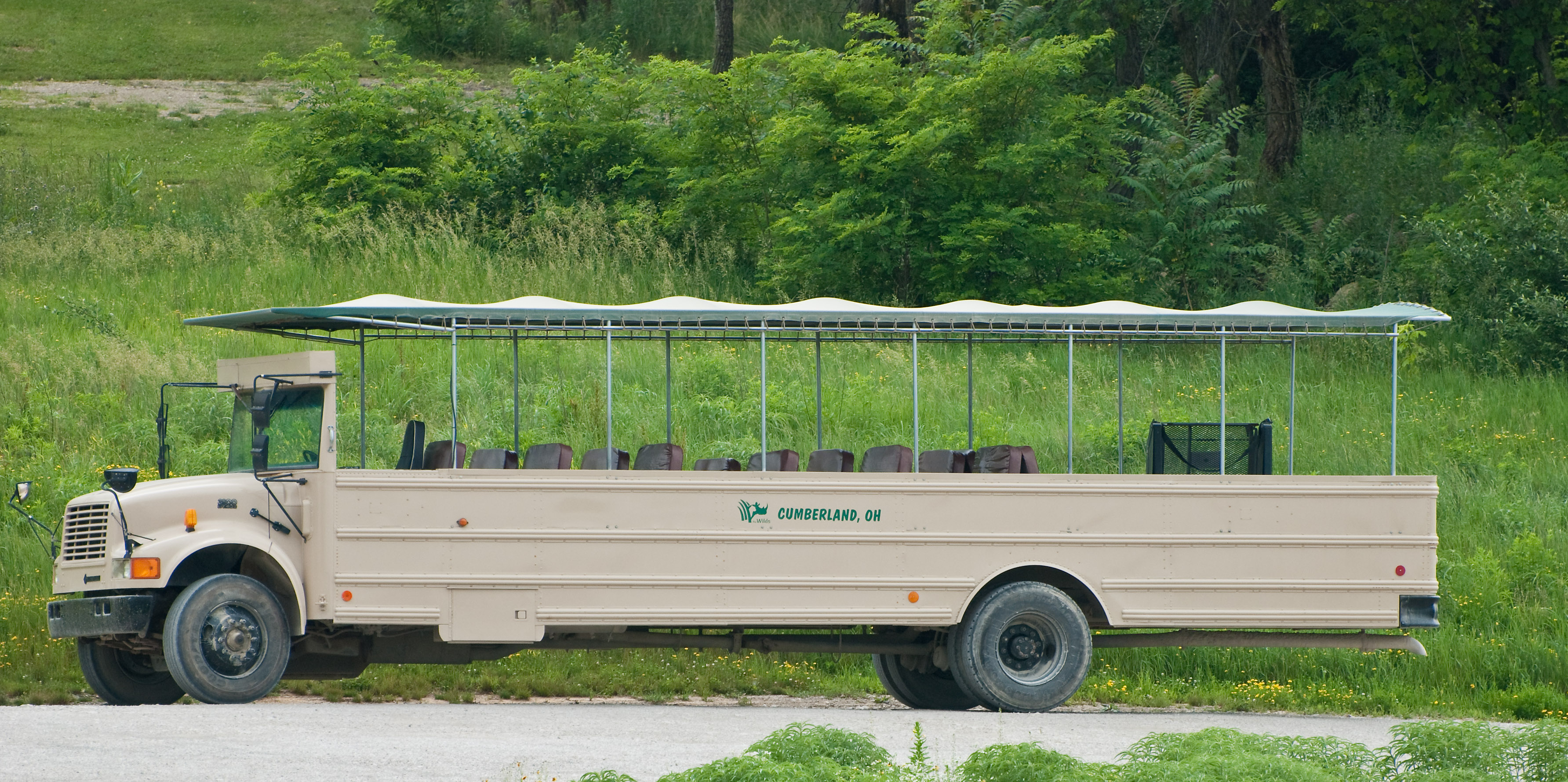 The open air safari vehicle used at The Wilds conservation park near Cumberland, Ohio.